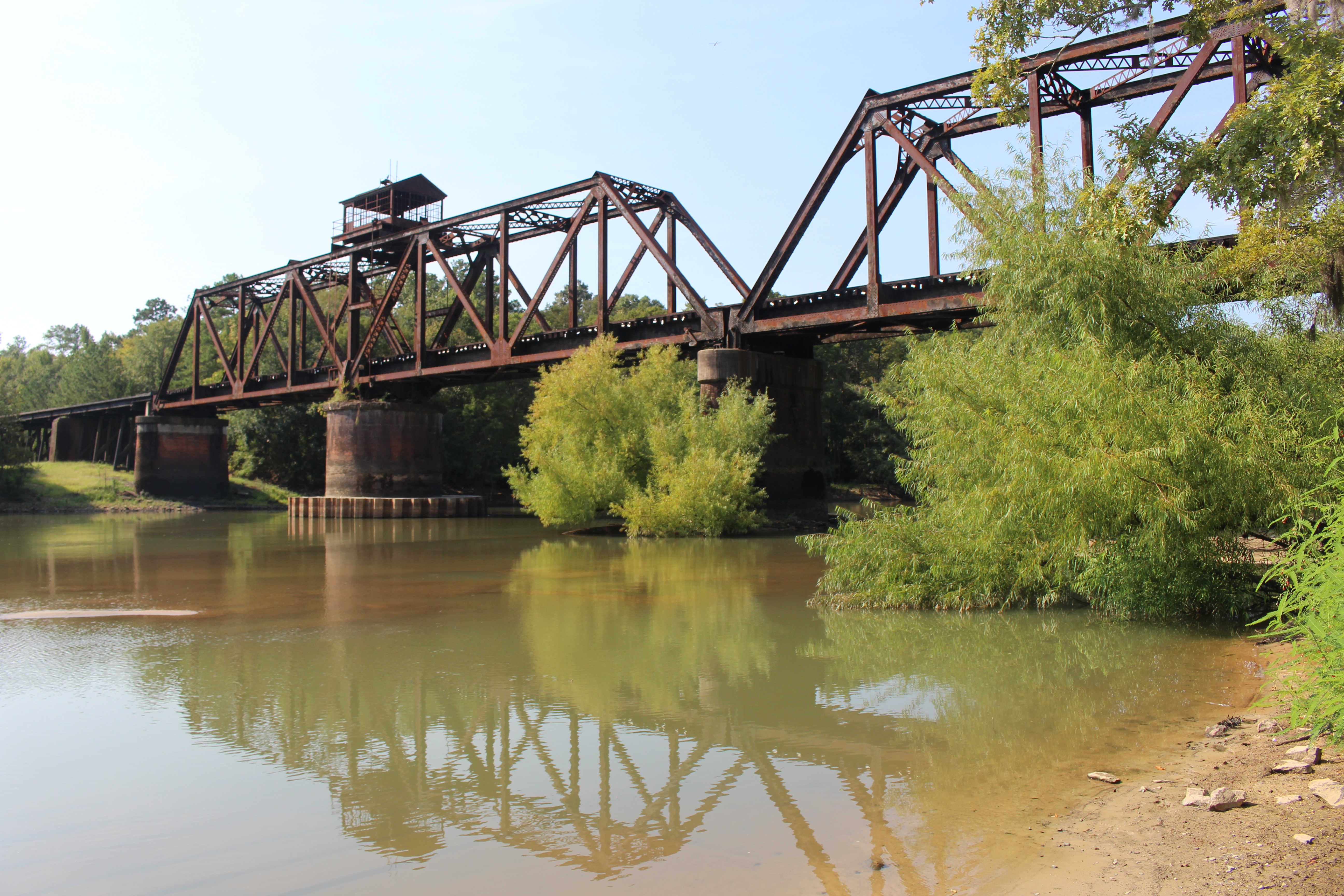 Ocmulgee Railroad bridge, Telfair County, Georgia